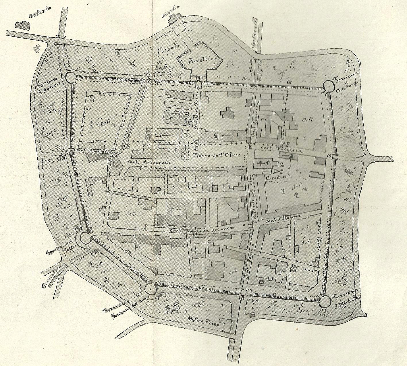 Castel Goffredo, city map from 1500.